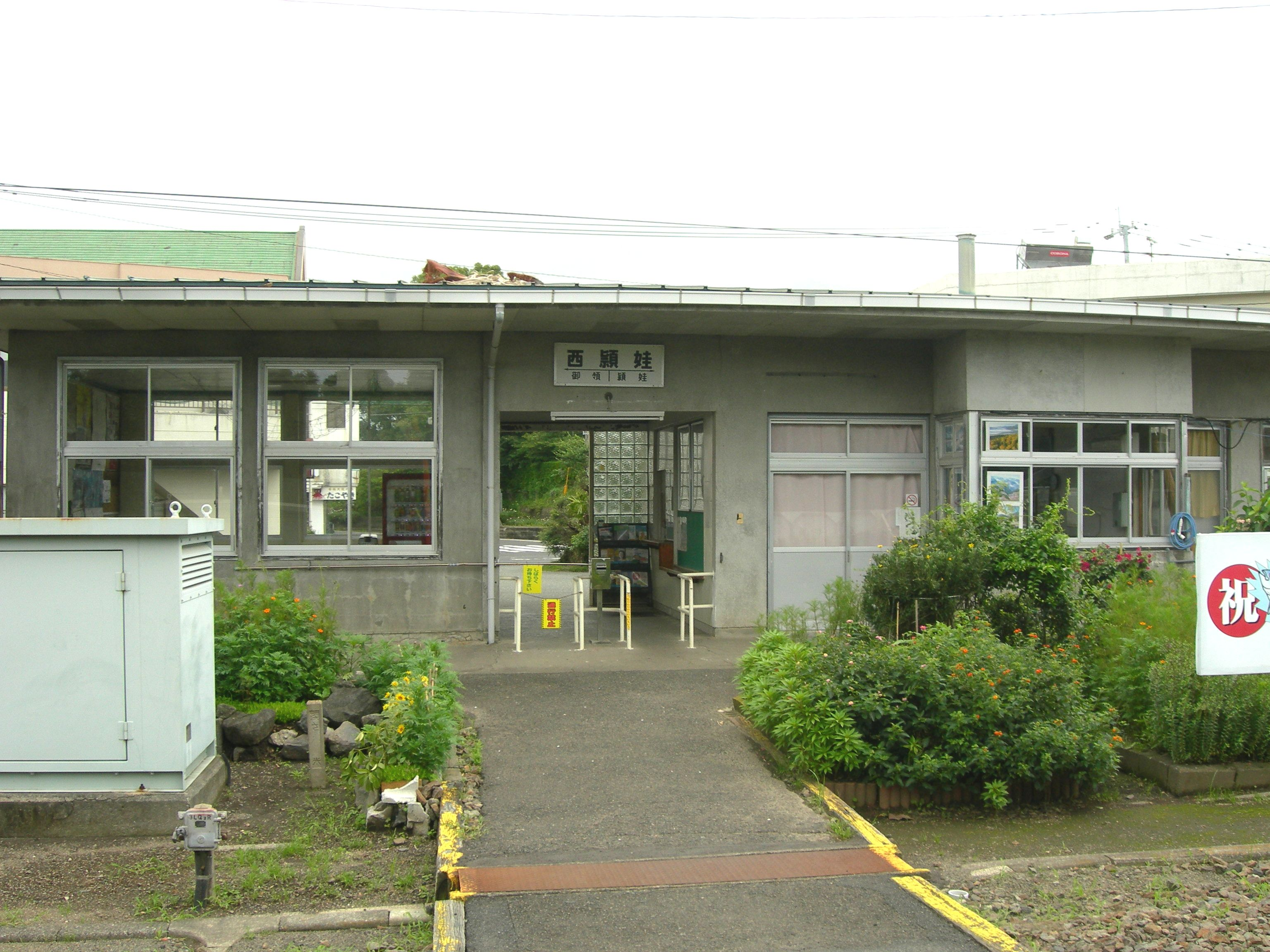 Nishi-Ei Station on Ibusuki Makurazaki Line